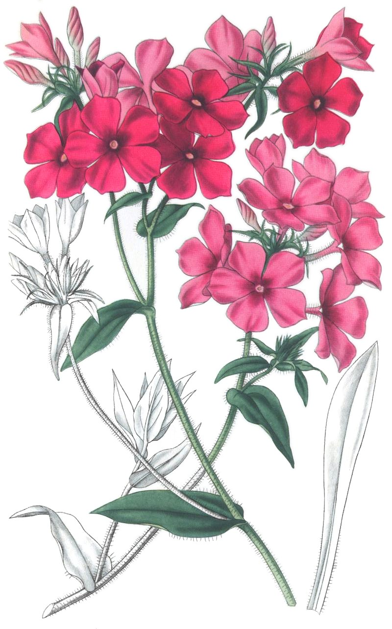 Phlox drummondii illustration with page number and description removed: 344Ø1 Pub. by S. Curtis. Glazenwood Essex. Oct. 1, 1835